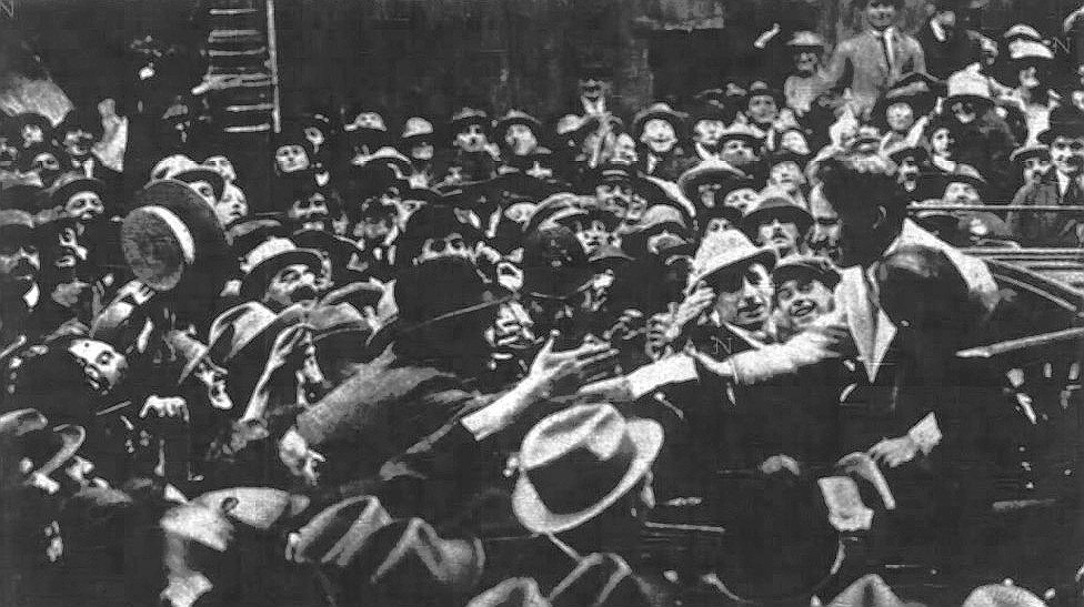 Photo of Charlie Chaplin exiting a cab in front of the Ritz Hotel, London in 1921, Chaplin had left the city seven years before as an unknown actor. Throngs of people were waiting to see him at the Ritz. Chaplin had to be assisted from the taxi to the hotel by local police as the crowd refused to let him leave.